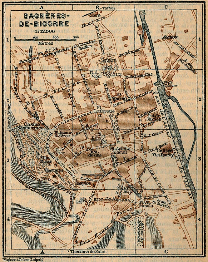 Map of France. 1914. Bagneres de Bigorre.